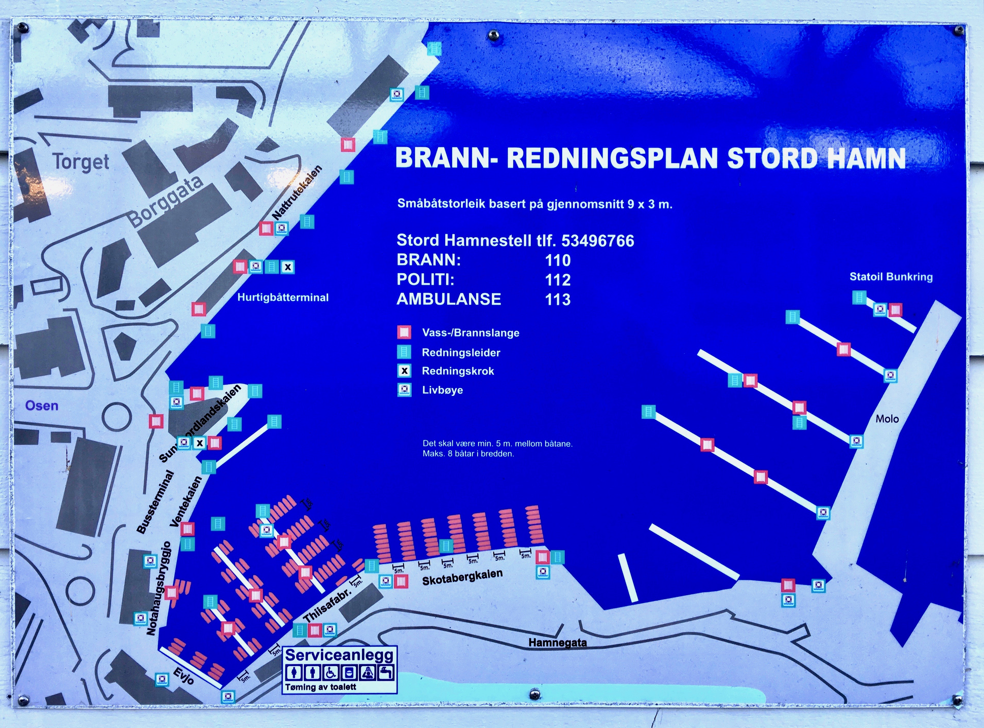 Map of Stord harbour in Leirvik town, Norway. (Norwegian: Brann- og redningsplan for Stord hamn). 2018-03-10